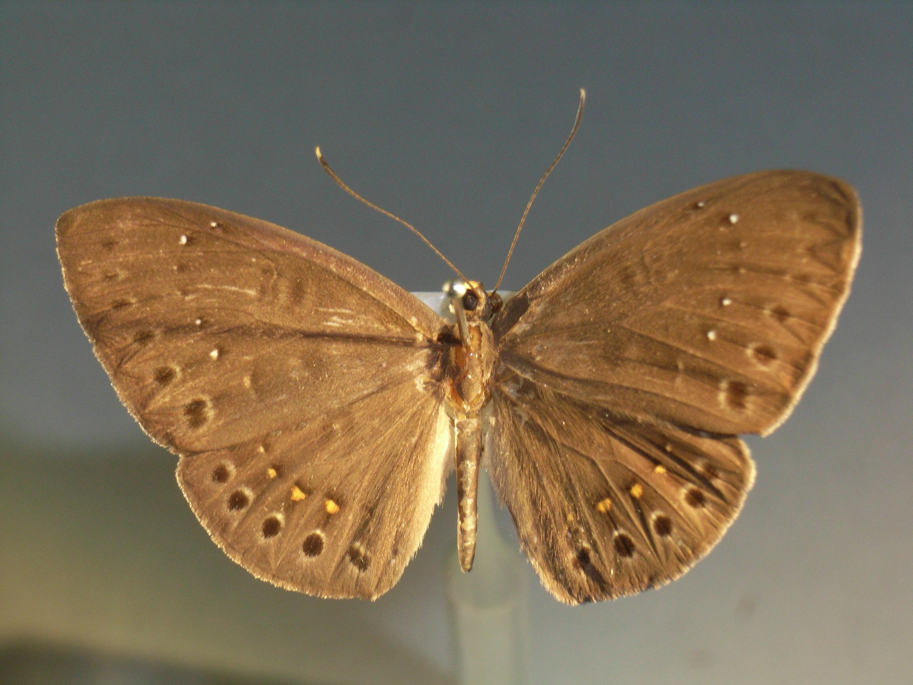 Eurybia halimede:Riodinidae Male